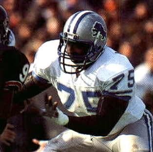 Detroit Lions offensive tackle Lomas Brown pictured blocking a Chicago Bears opponent during an away game circa 1987.